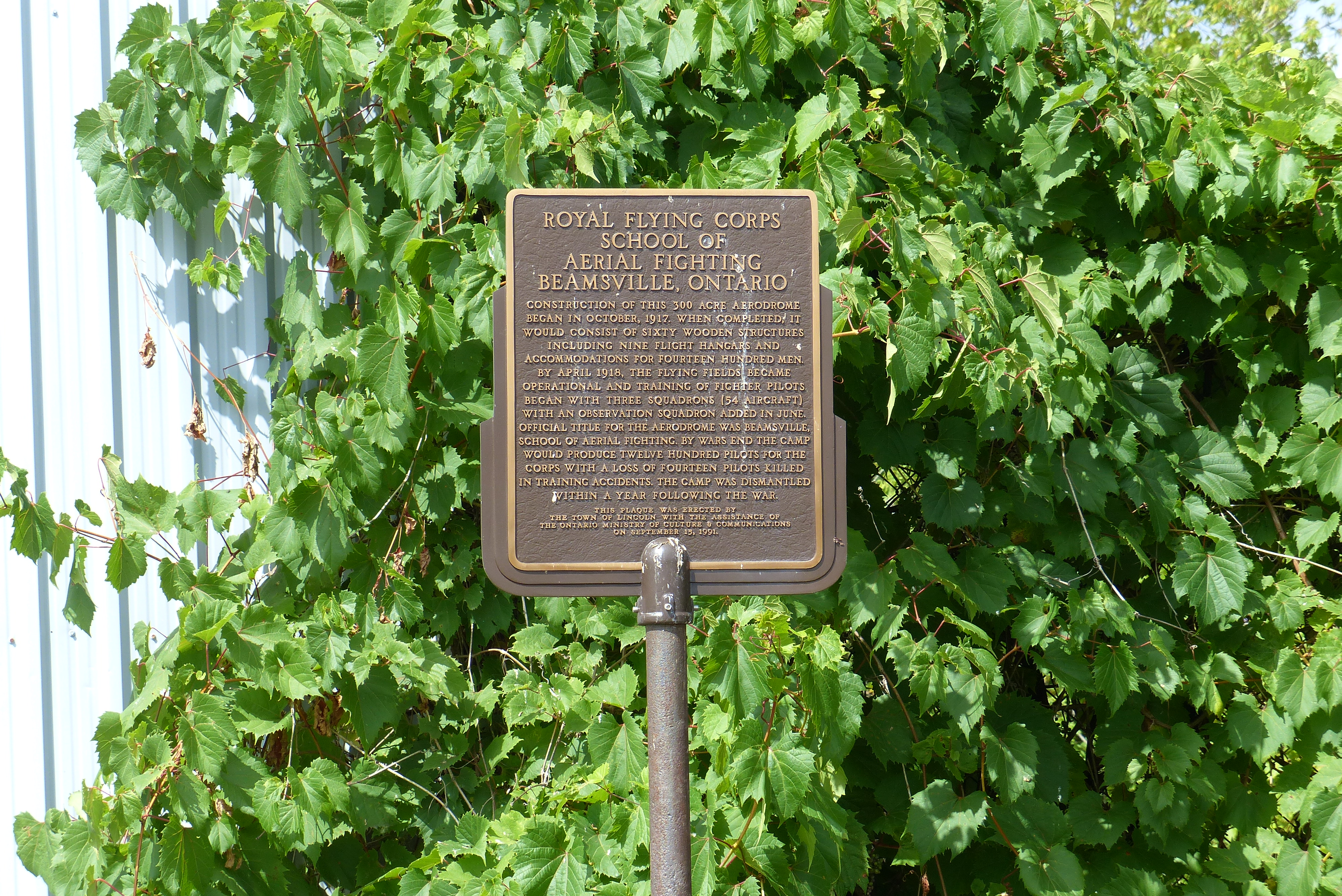 The historical plaque marking the centre of the RFC airfield at Beamsville, Ontario, Canada.